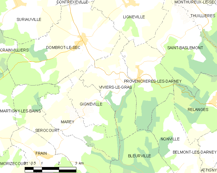 Map of French municipality Viviers-le-Gras